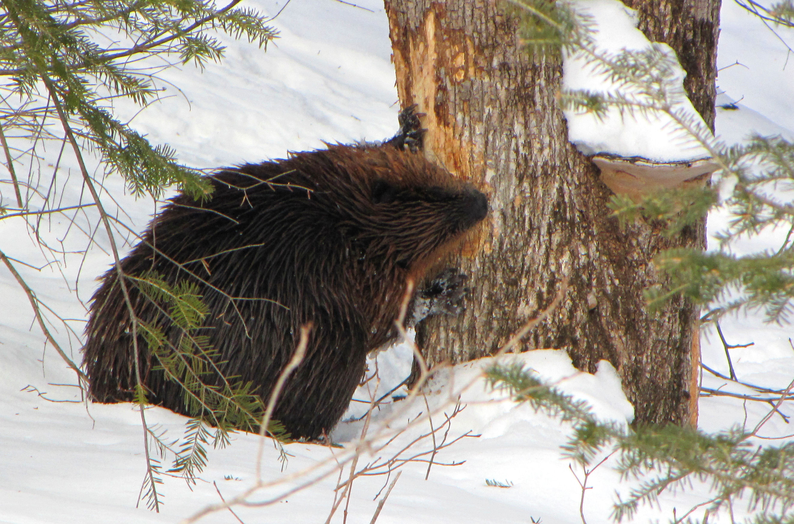 Canadian Beaver (Castor canadensis), Gatineau Park, Quebec, Canada.